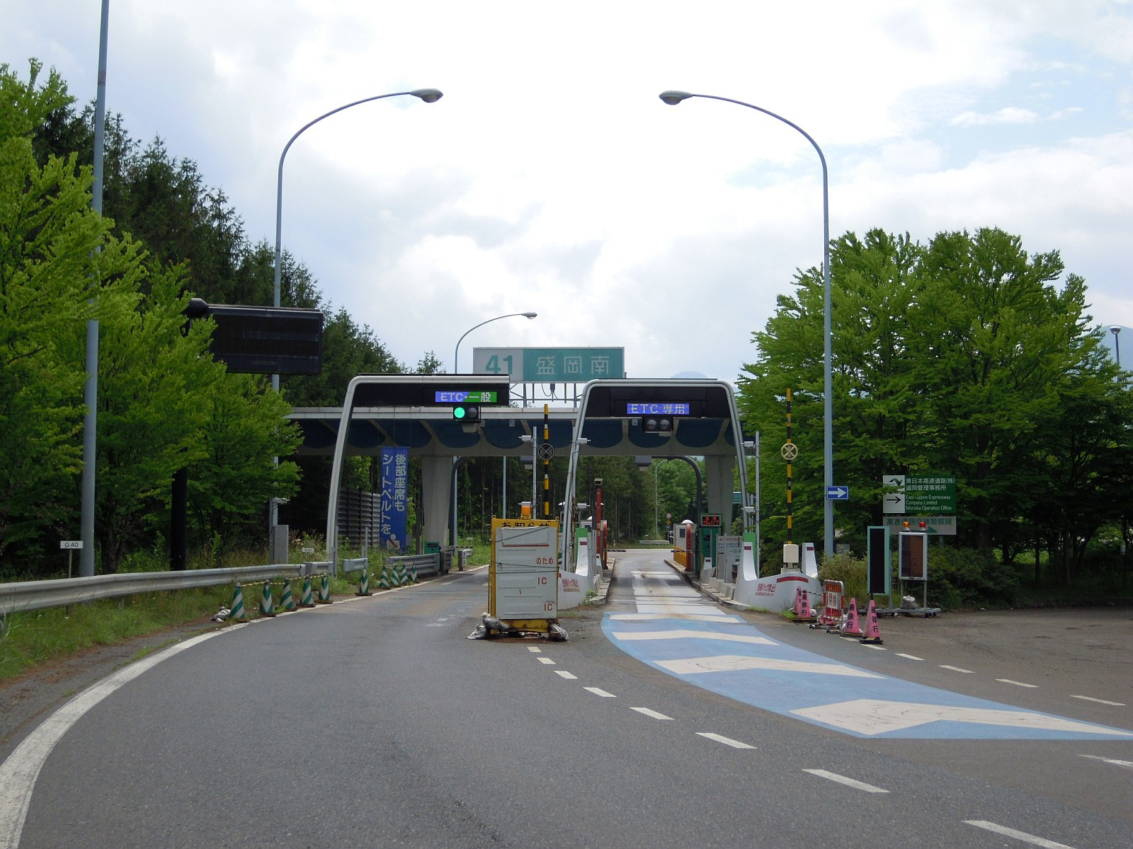 This Interchange, Morioka-Minami Interchange, is on Tohoku Expressway, in Morioka City Iwate Prefecture, Japan.